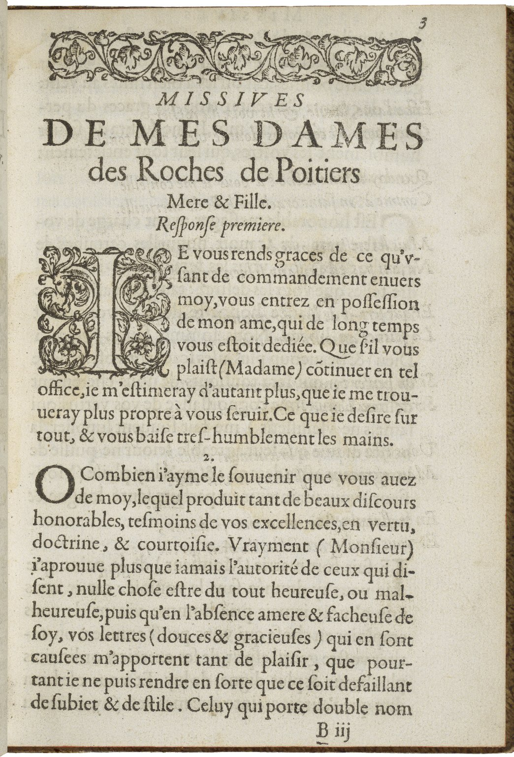 The first page of a 1586 edition of Des Roches' Missives.